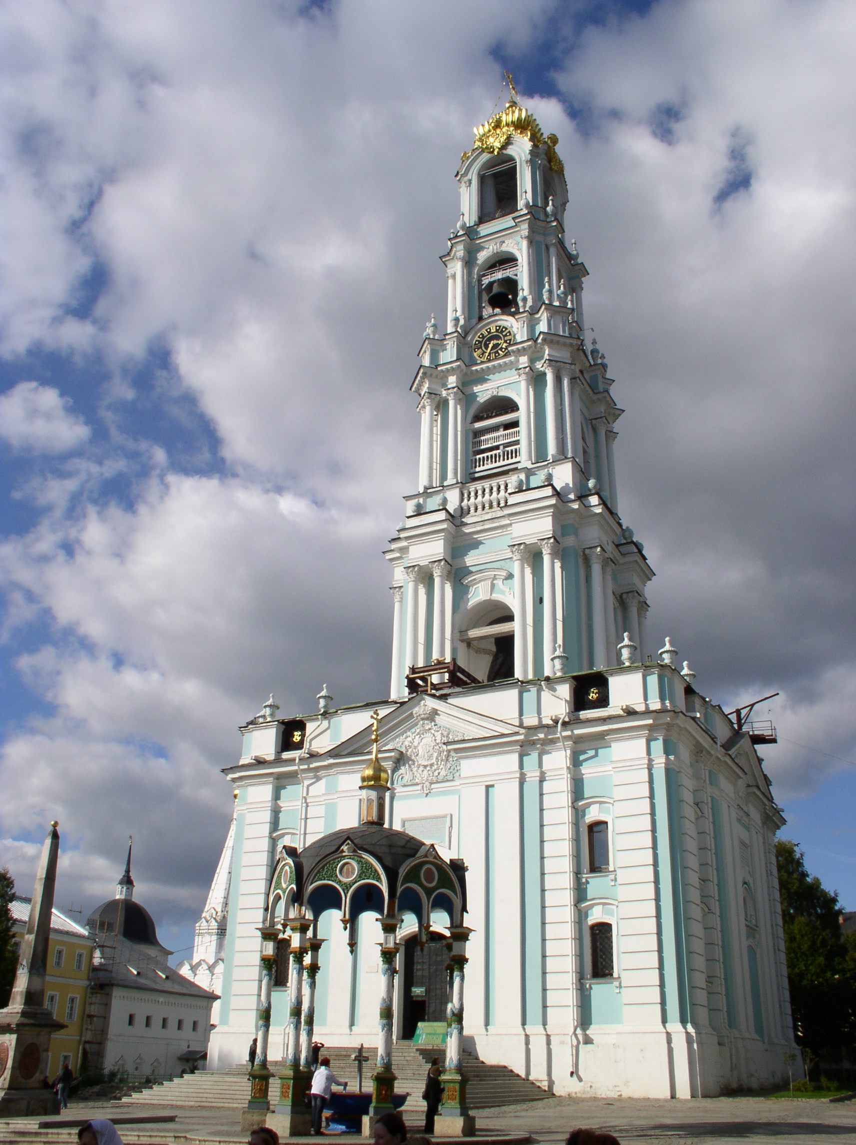 Bell tower. Troitse-Sergiyeva Lavra. Sergiev Posad, Russia.